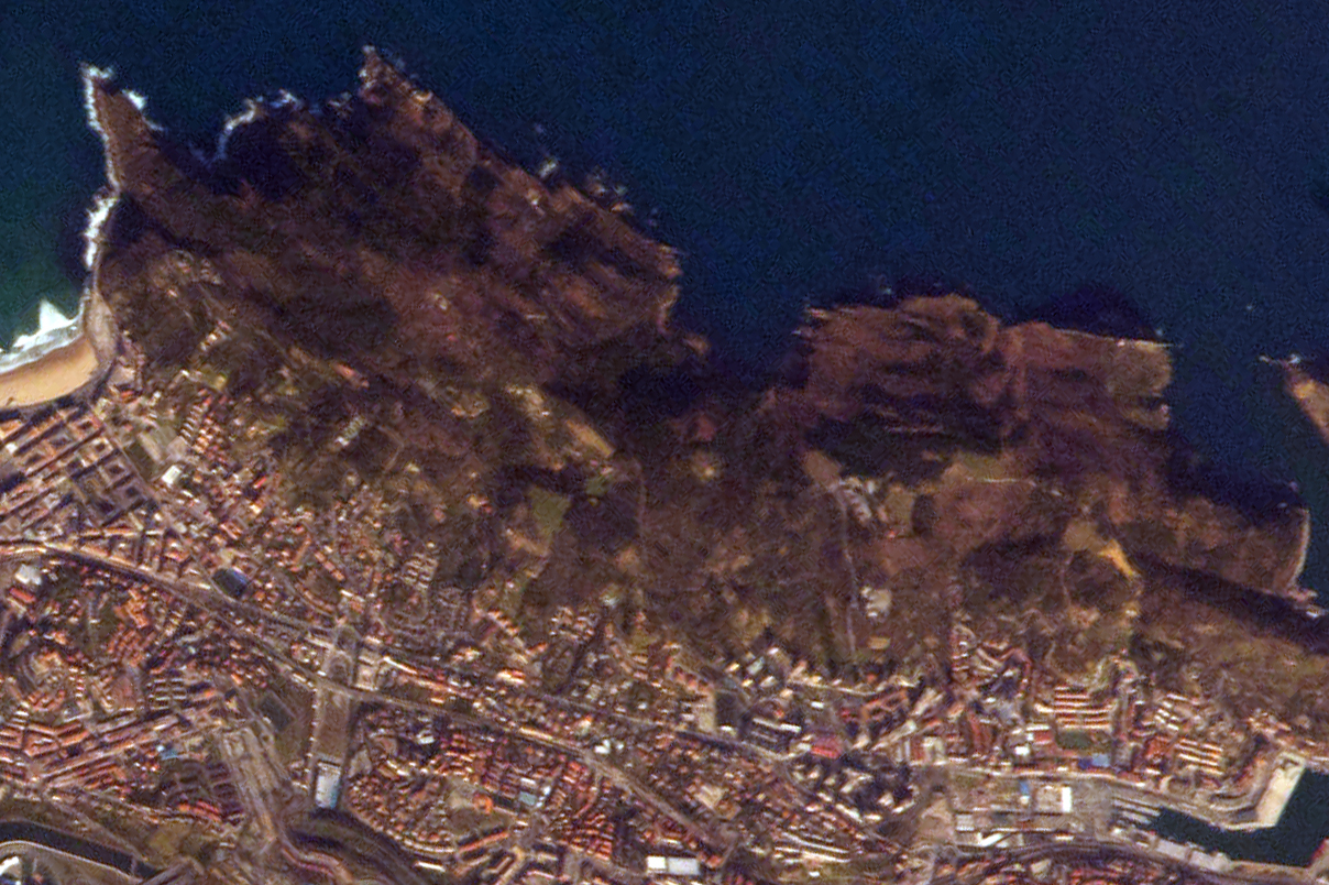 Ulia, Gipuzkoa, Basque Country